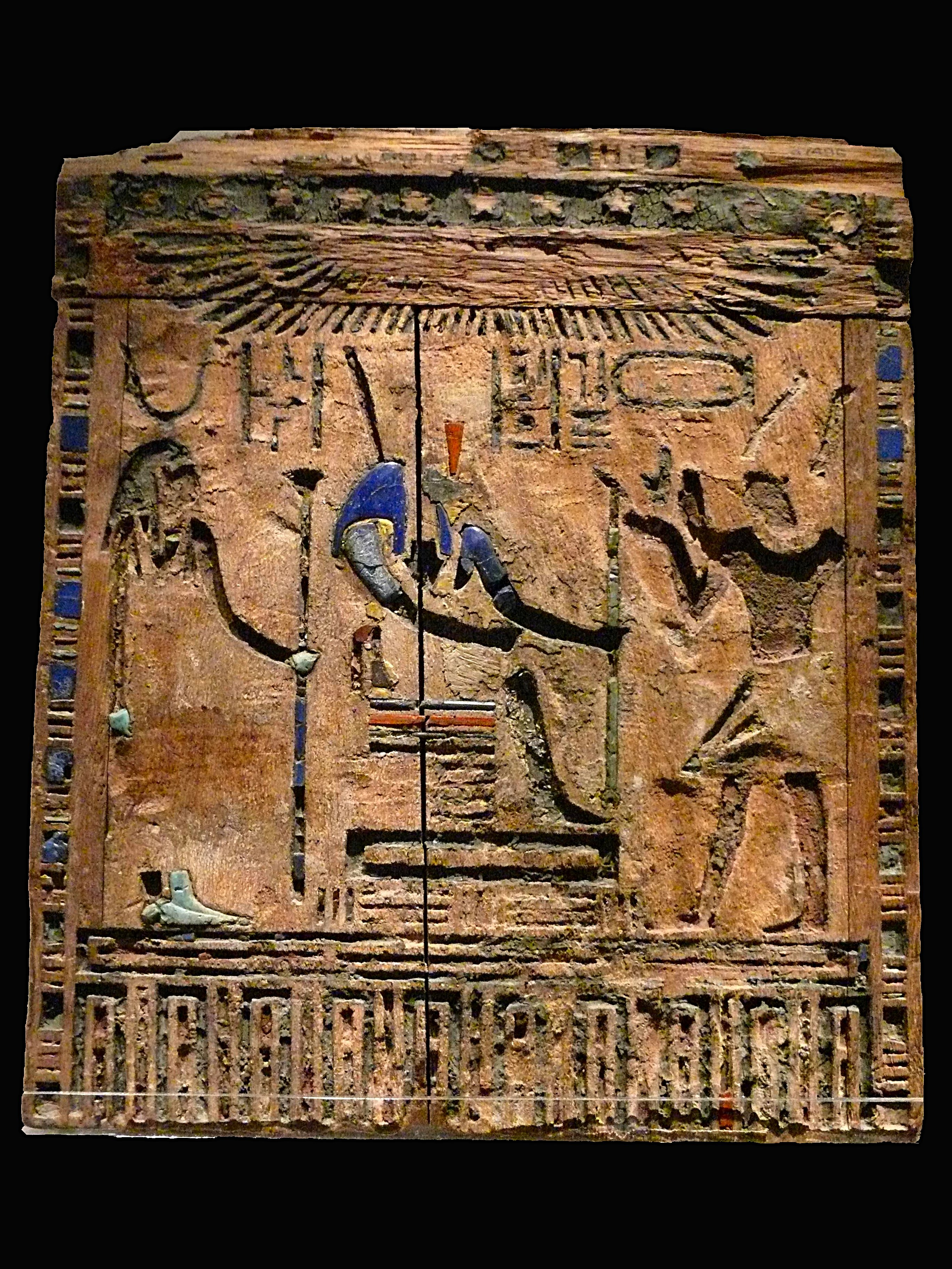 Egyptian representation of Darius the great as a pharaoh. Egyptia has several time been subjected to the Persian empire, the XXVIIth dynasty of pharaoh was the first Persian one. Darius’s most famous statue found in Susa, has been manufactured in Egyptia before being exported to Susa, here this other stunning artefact shows an unusual picture of the king of kings. Taken at the British museum, London, United kingdom, December 2009. Représentation égyptienne de Darius le Grand en tant que Pharaon. L’Egypte a plusieurs fois été intégrée à l’empire Perse, et la XXVIIème dynastie de pharaons était la première issue de Perse.La plus célèbre des statues de darius trouvée à Suse a ainsi été réalisée en Egypte avant d’être importée à Suse, voici un autre témoignage étonnant montrant une image inhabituelle d’un roi des rois. Prise au British Museum, Londres, Royaume-Uni, Décembre 2009.